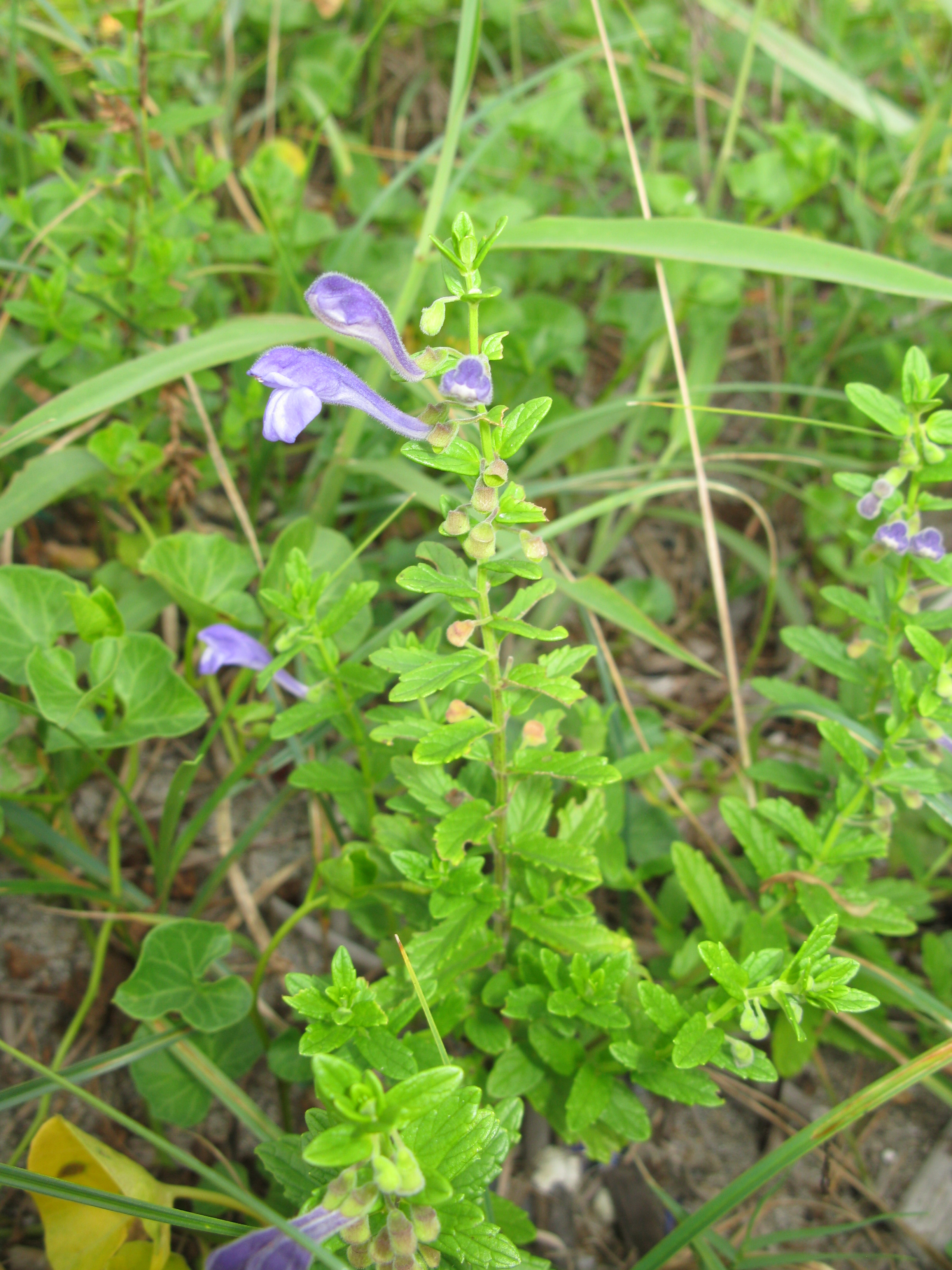 Scutellaria strigillosa, Syonai area, Yamagata pref., Japan